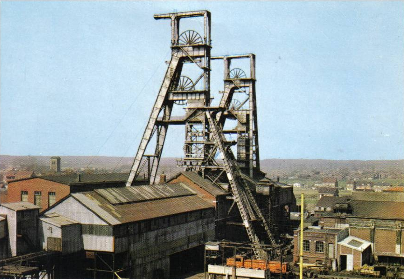 Pit Agache, Fenain, France.